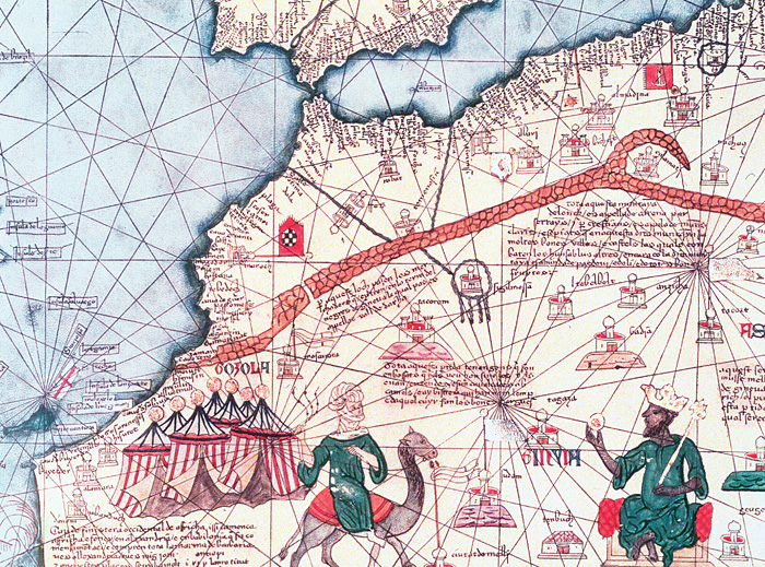 Map of West Africa. The Catalan Atlas reproduction.